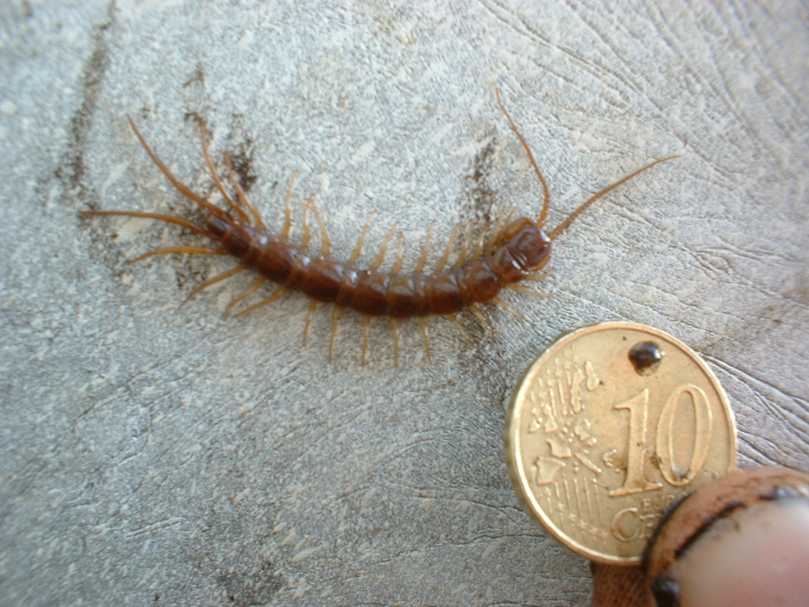 Millipede, picture taken on balcony in Zeist, the Netherlands